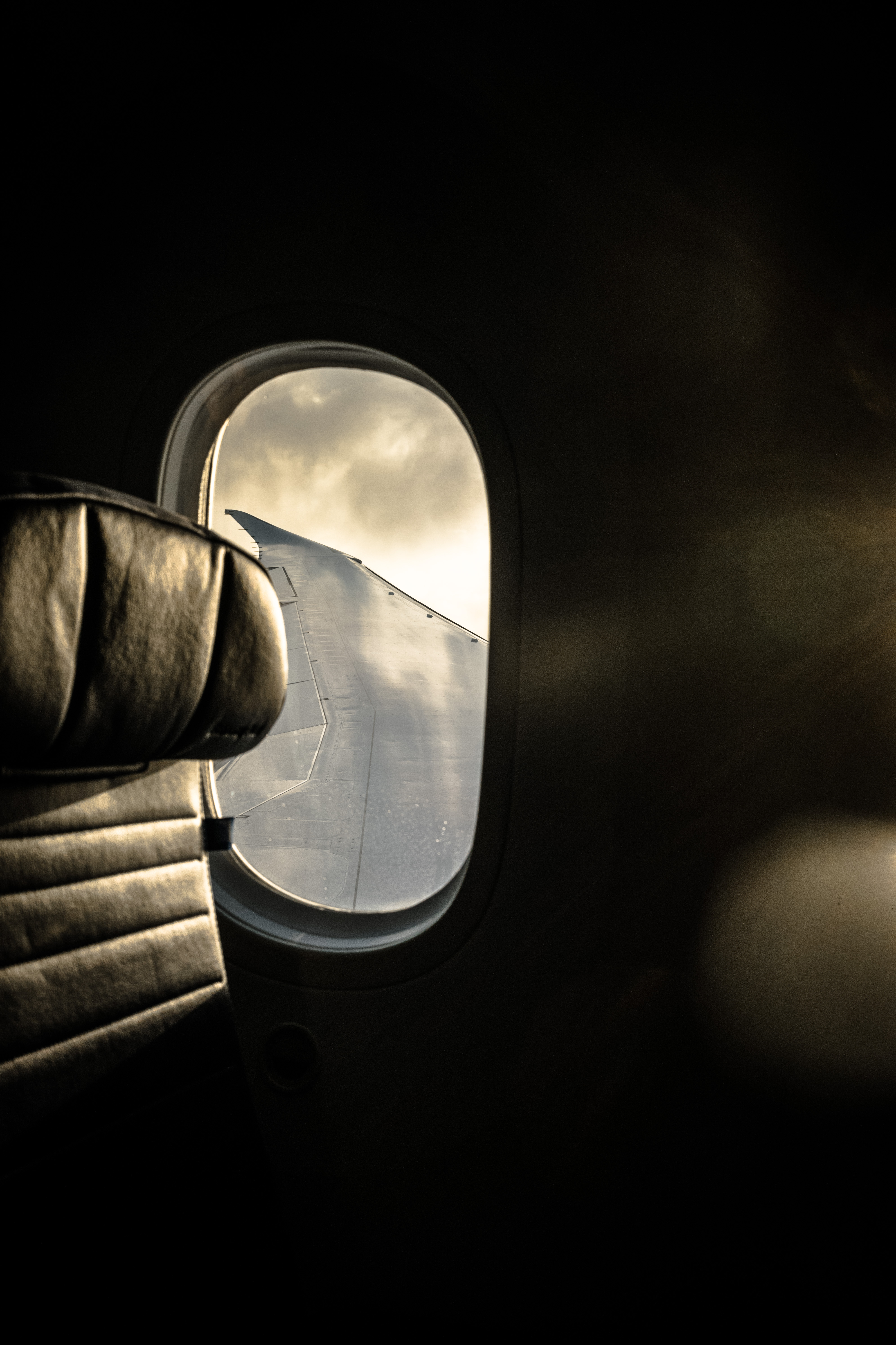 United Airlines Wing and Economy Plus Seat